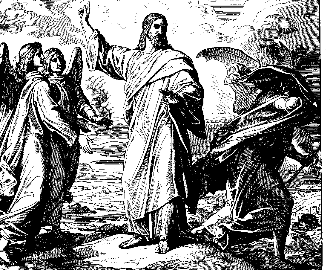 Woodcut for "Die Bibel in Bildern", 1860.